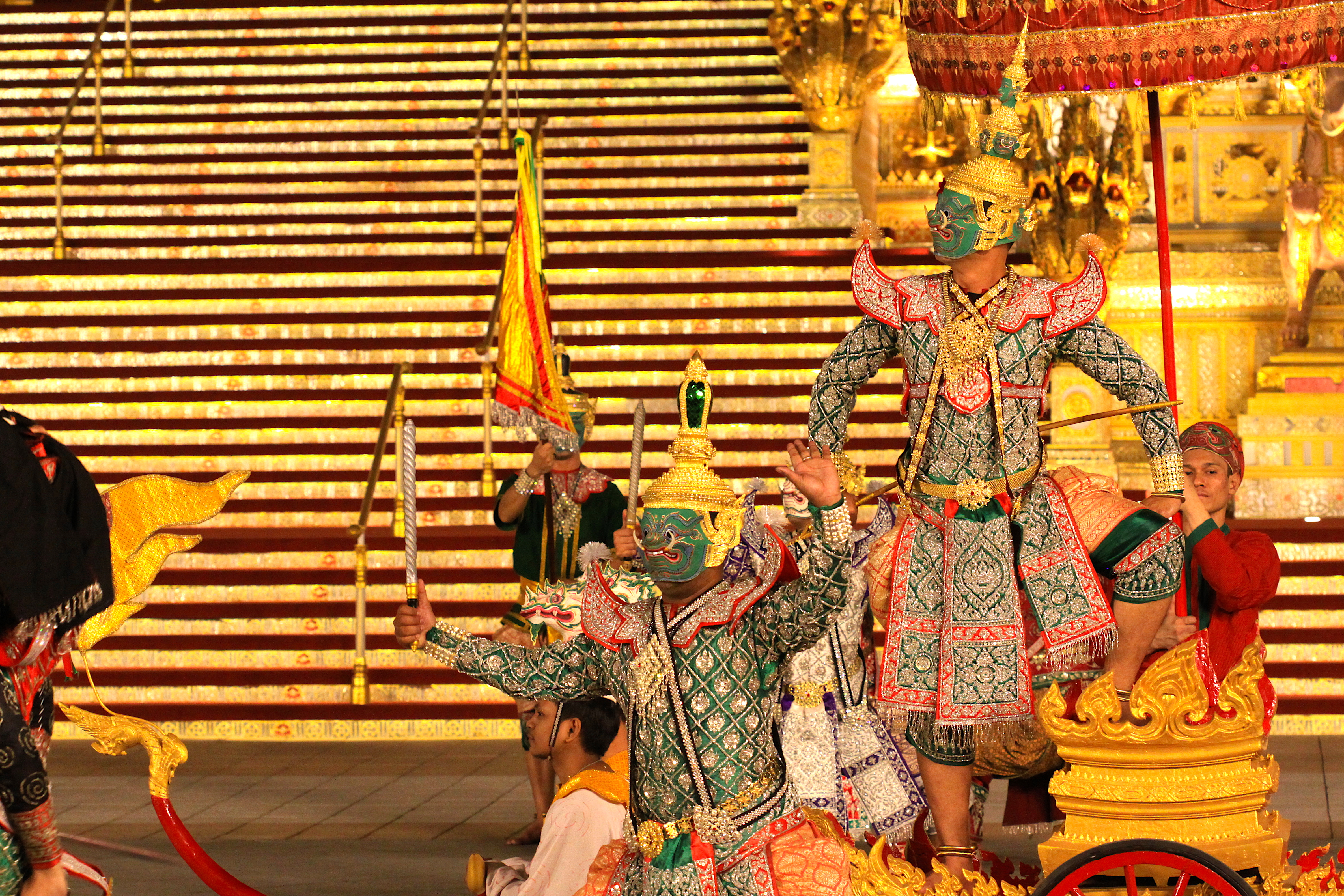 Art and Decoration from Royal Crematorium King Rama 9 of Thailand.